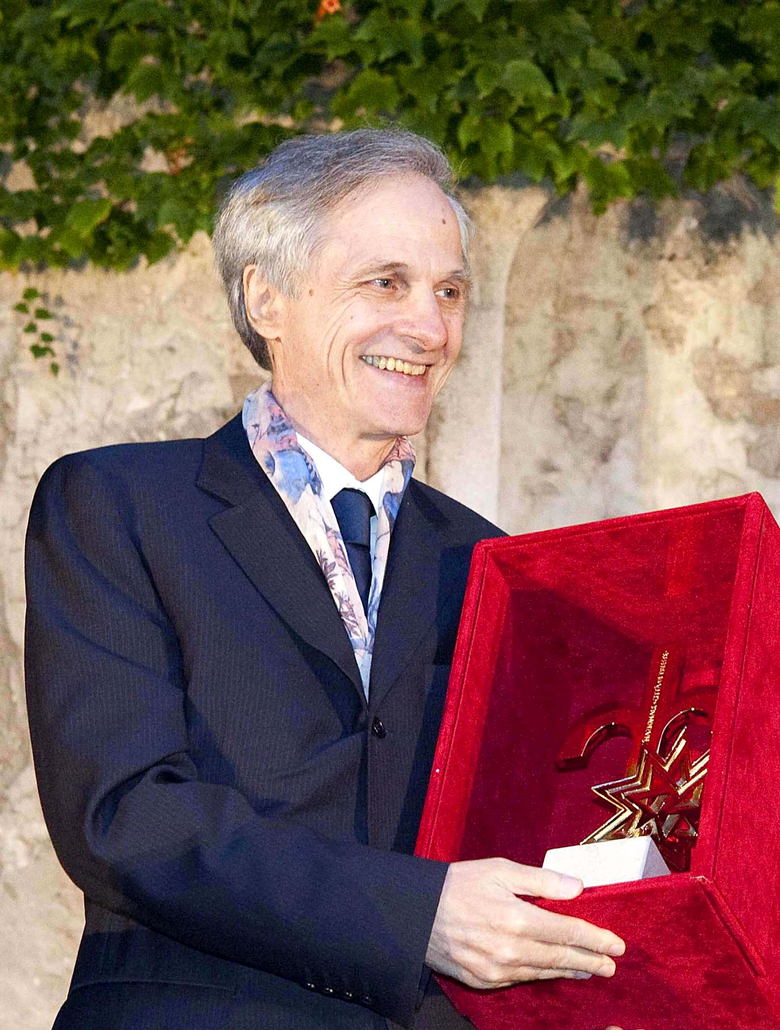 photo by the author